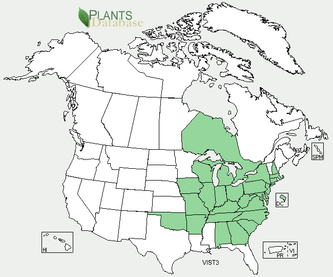 Viola striata — North America distribution map